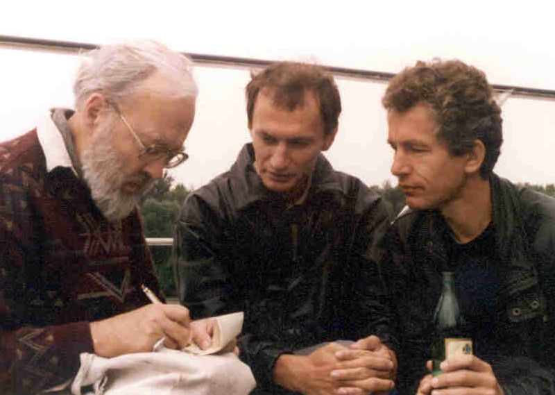 John Roycroft, Oleg Pervakov, Nikolai Griva – chess study composers, during a boating trip on occasion of the PCCC-Meeting 1993 in Bratislava